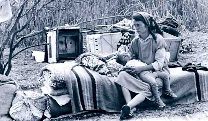 Azerbaijani refugees from the territories taken by local Armenians (Nagorno-Karabakh and the surrounding regions)